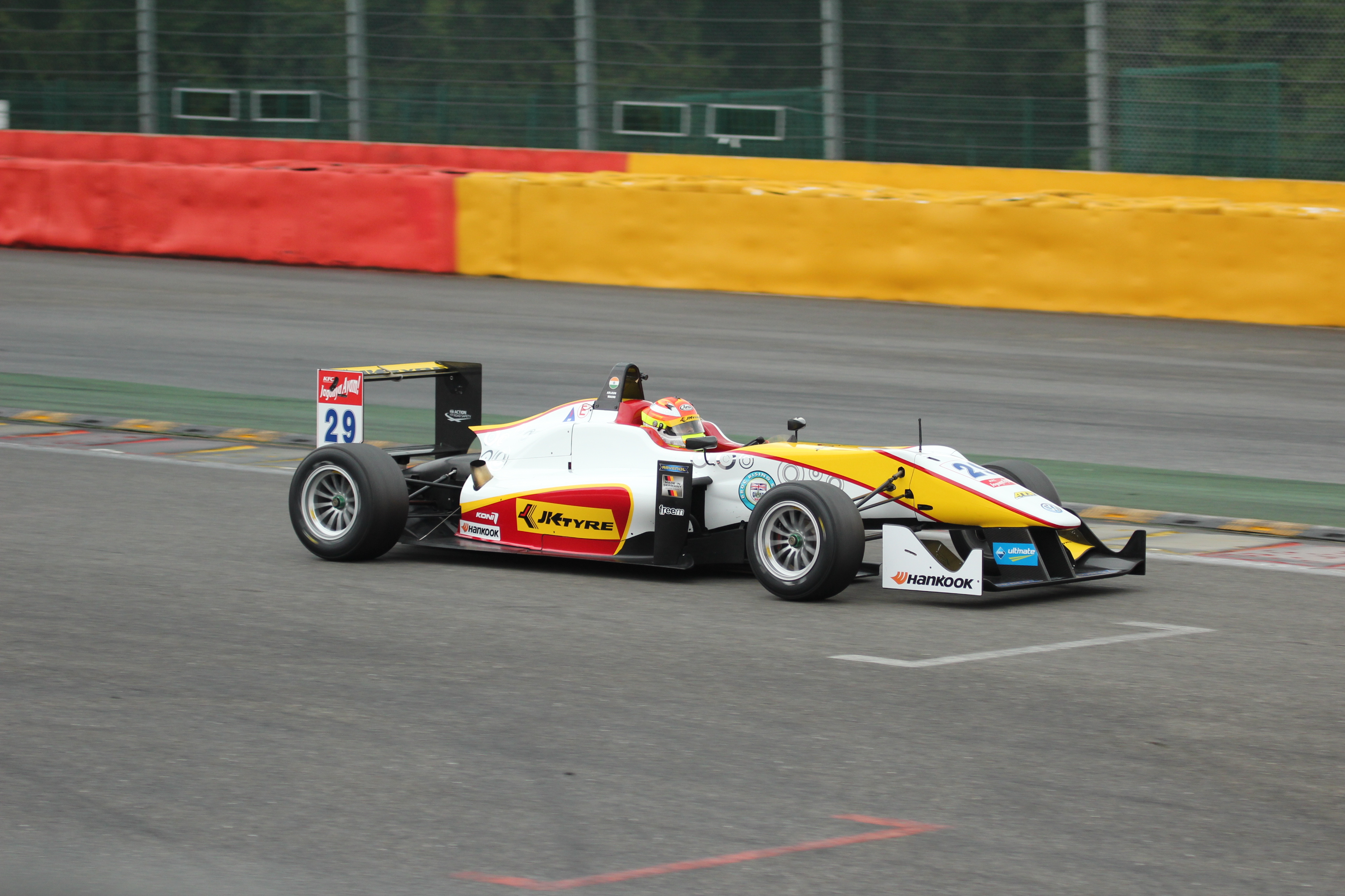 Arjun Maini at Spa in 2015, European Formula 3 Championship